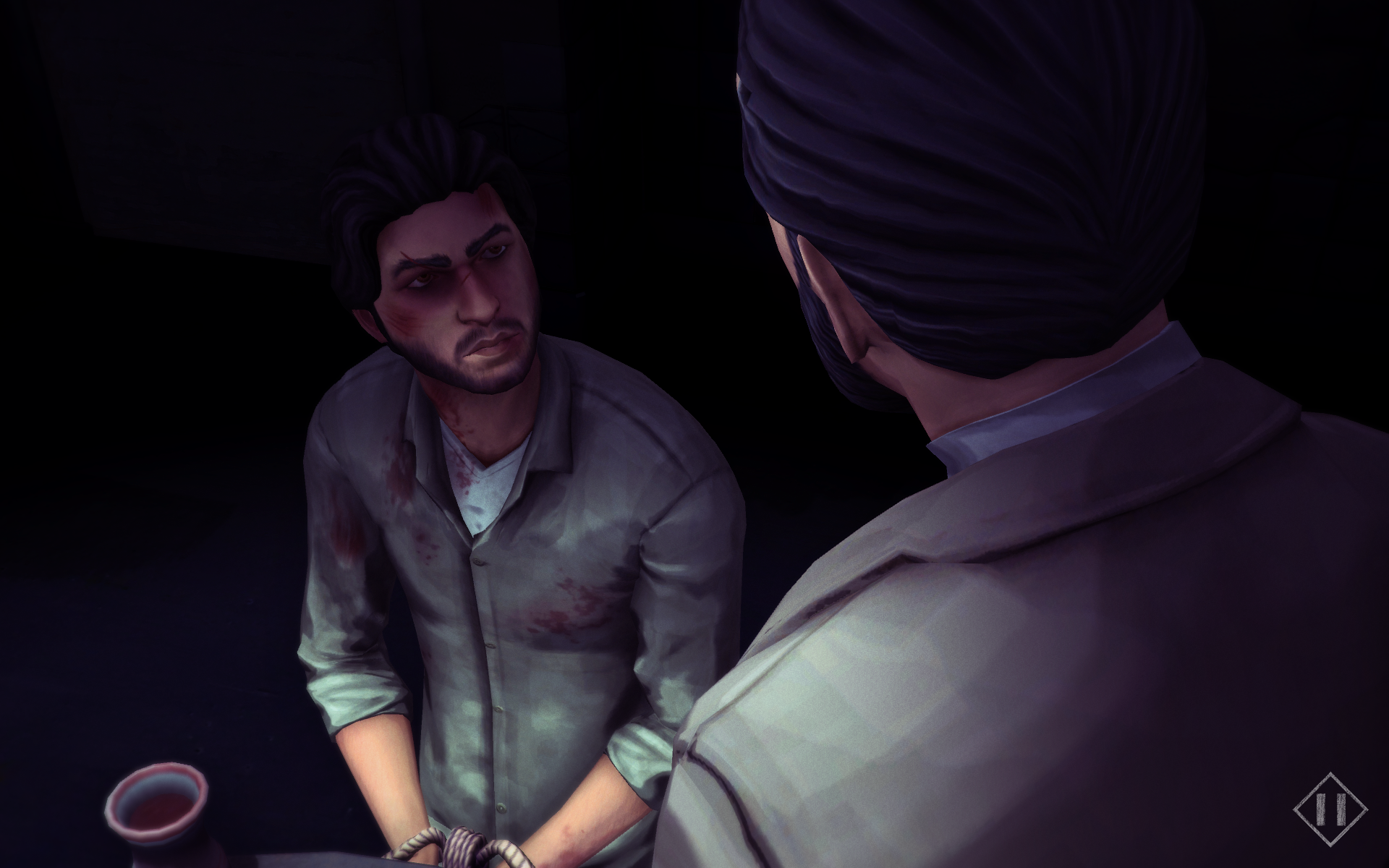 Screenshot from 1979 Revolution: Black Friday press kit